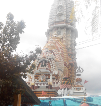 Jatoli Temple near Solan, Himachal Pradesh India